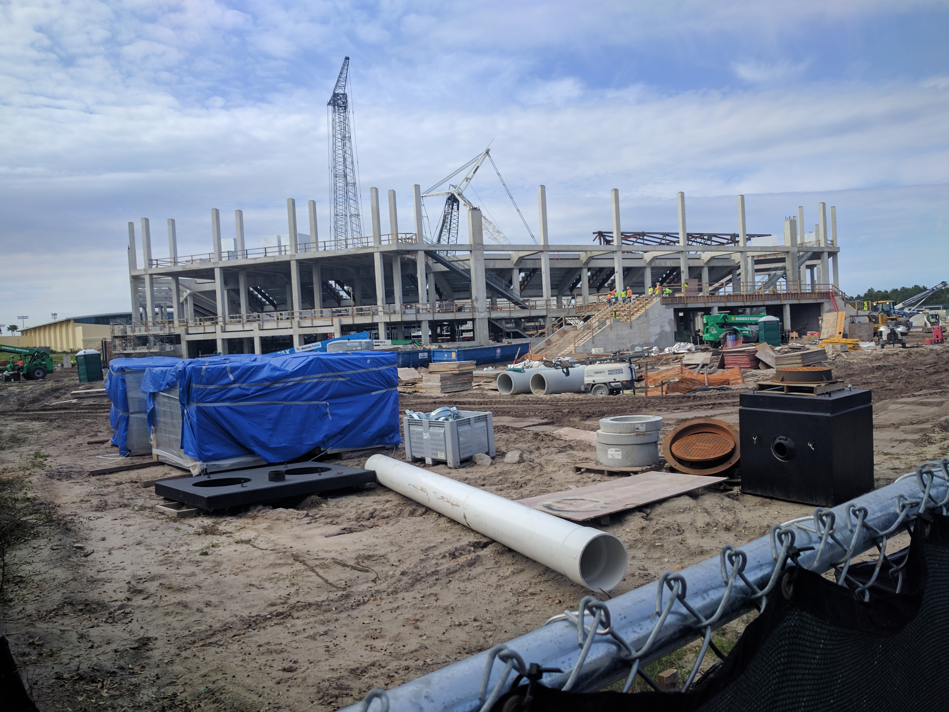 Taken during the NFL Pro Bowl Experience at ESPN Wide World of Sports Complex